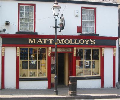 Flautist Matt Molloy's pub in Westport